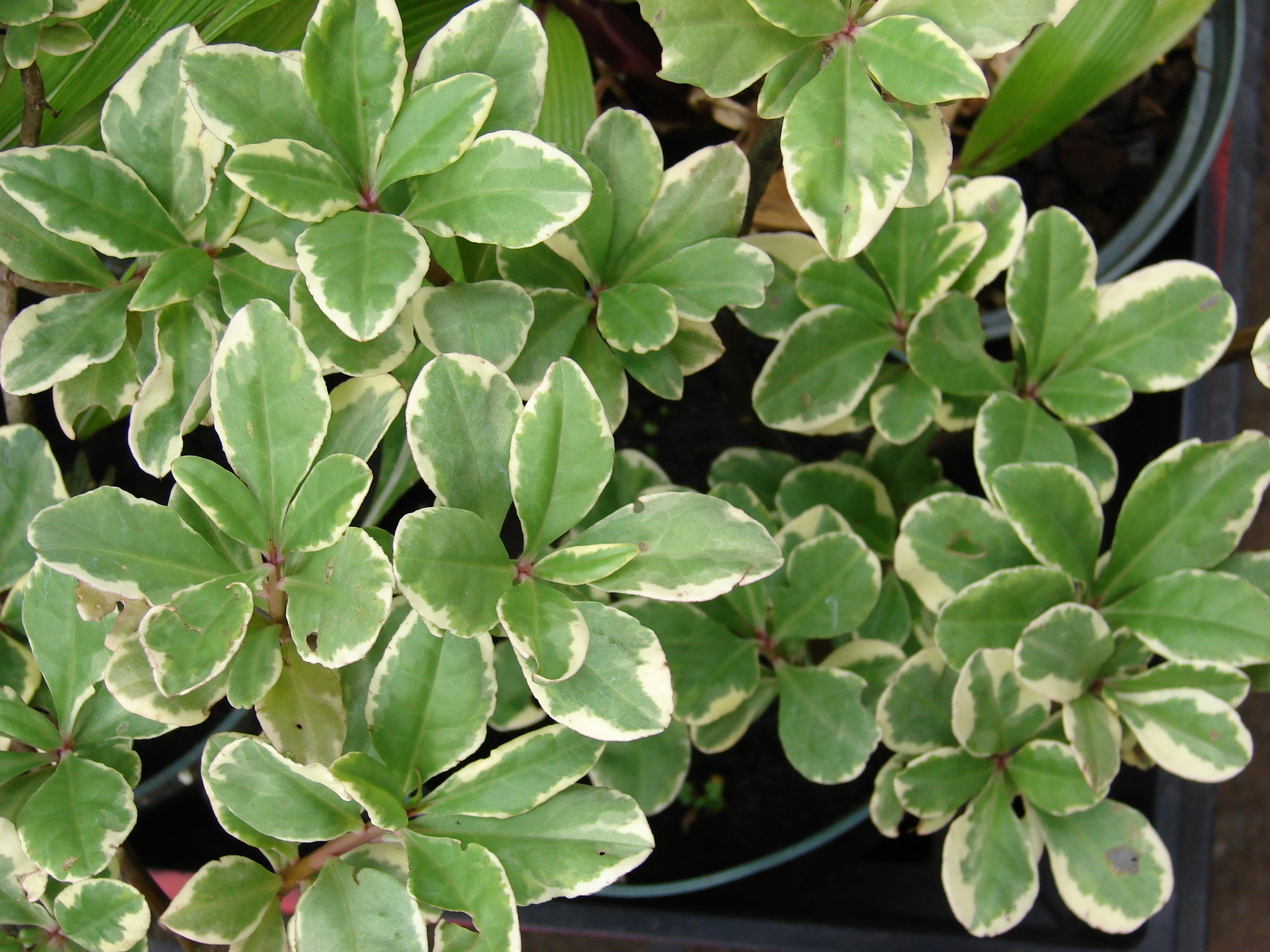 Talinum paniculatum (in pots). Location: Maui, Kula Ace Hardware and Nursery